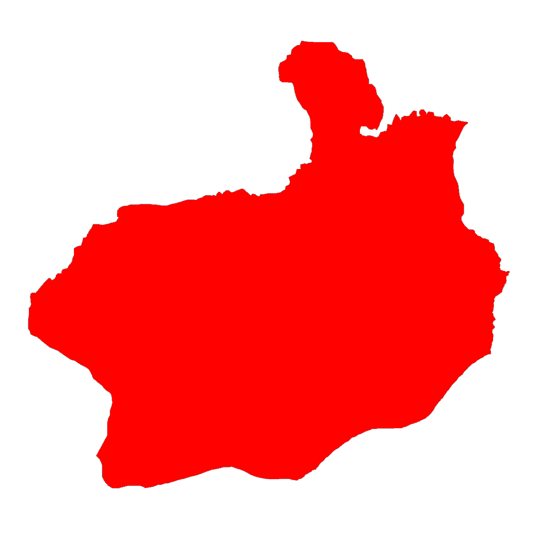 neighborhood/district of Santa Maria, Rio Grande do Sul